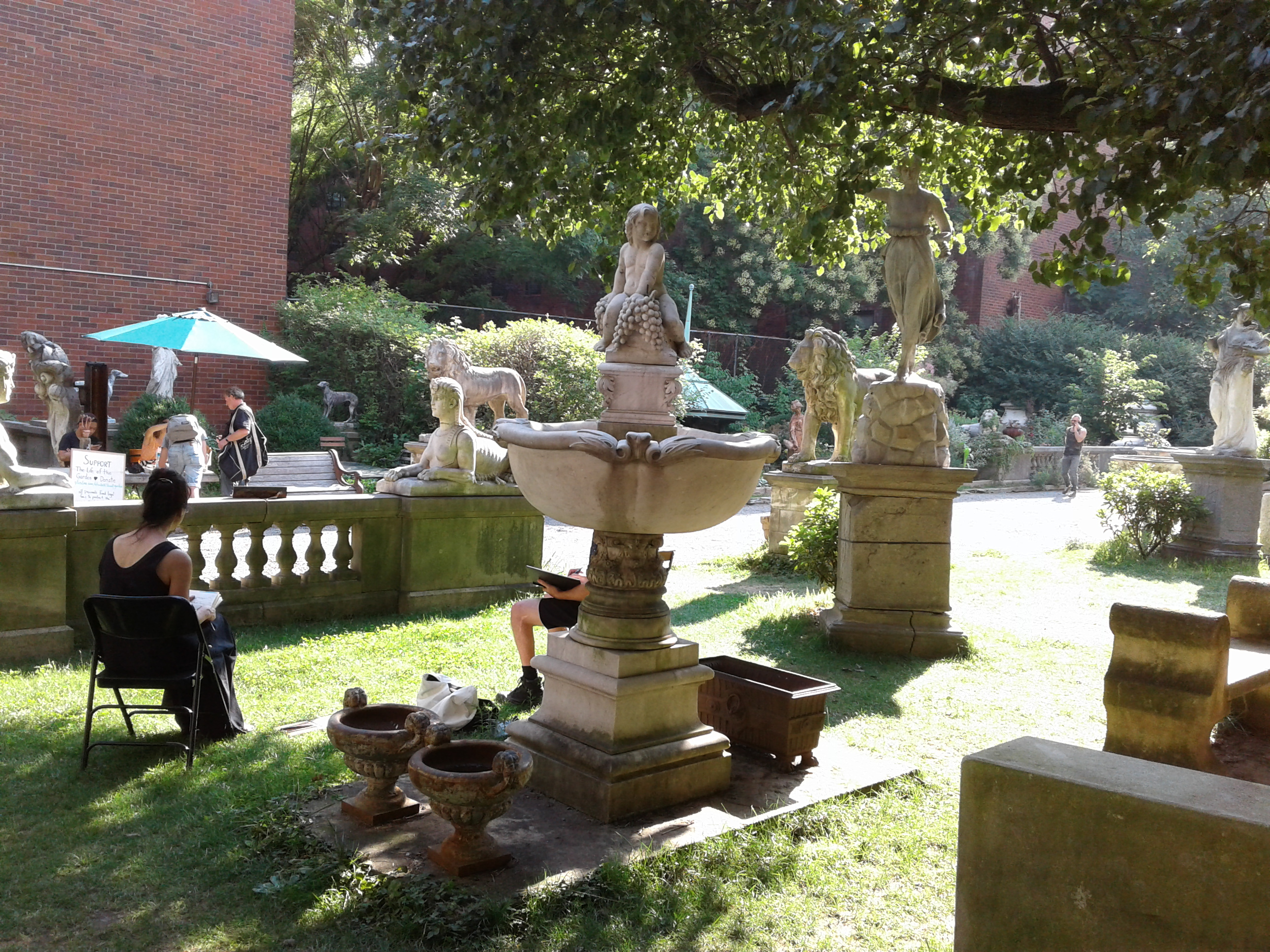 Elisabeth Street Garden Near Front Entrance